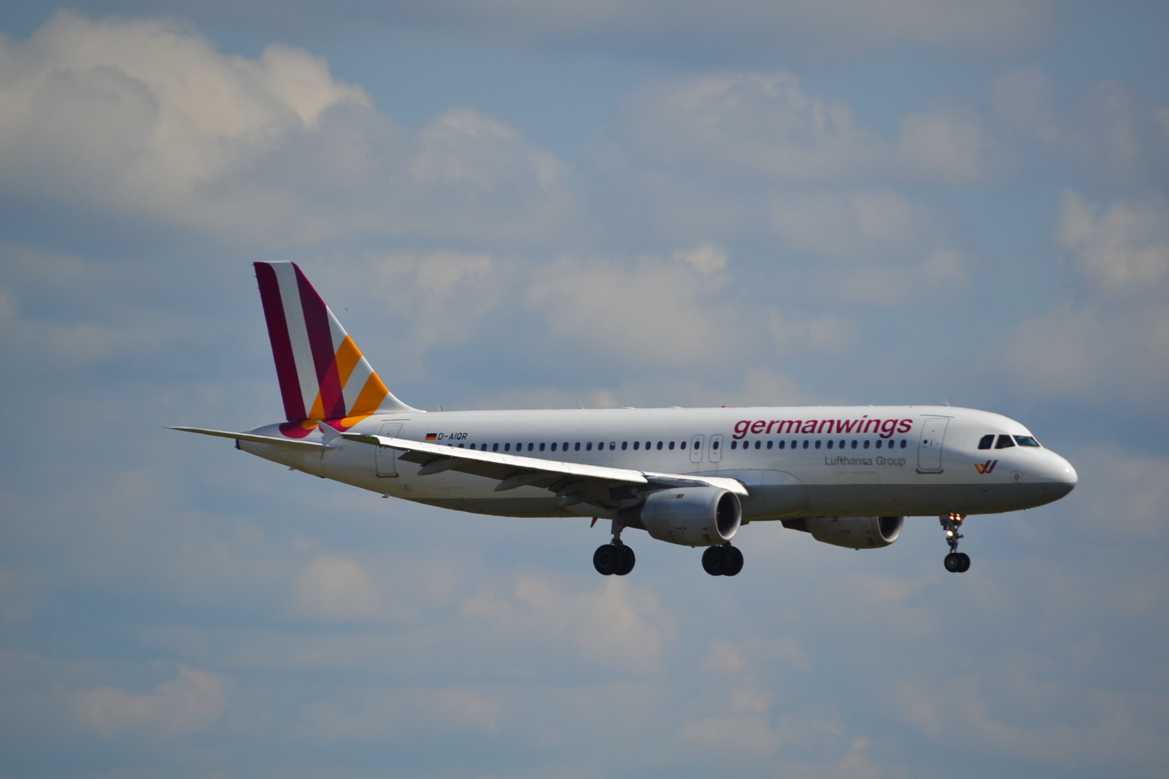 Airbus A320 of Germanwings arriving at Cologne/Bonn, 26/06/14.